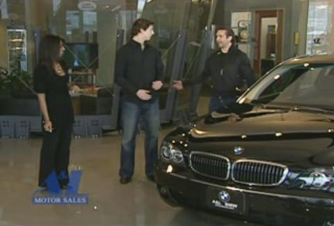 Screenshot from a famous (at least locally) Pittsburgh A&L Motor Sales commercial featuring Pittsburgh Penguins Colby Armstrong, Maxime Talbot, Sergei Gonchar, and Evengi Malkin. Photo taken from Youtube video published by copyright owner.